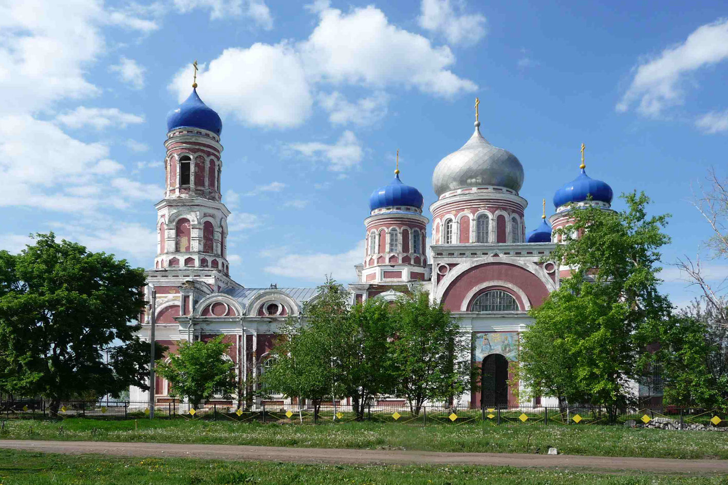 Church of the Ascension (1841-1859). The town of Spassk, Penza oblast, Russia